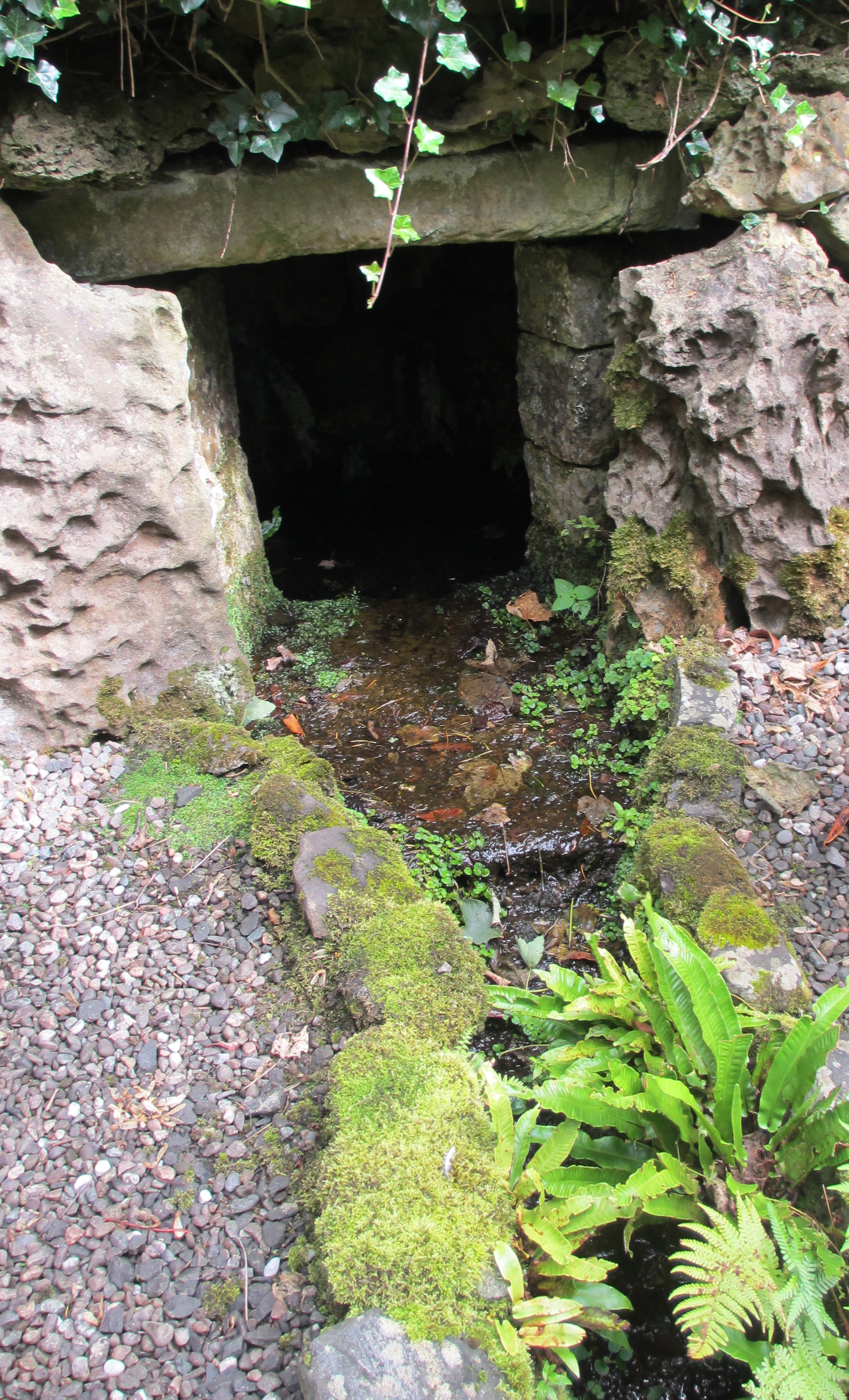 St Theriot's Well